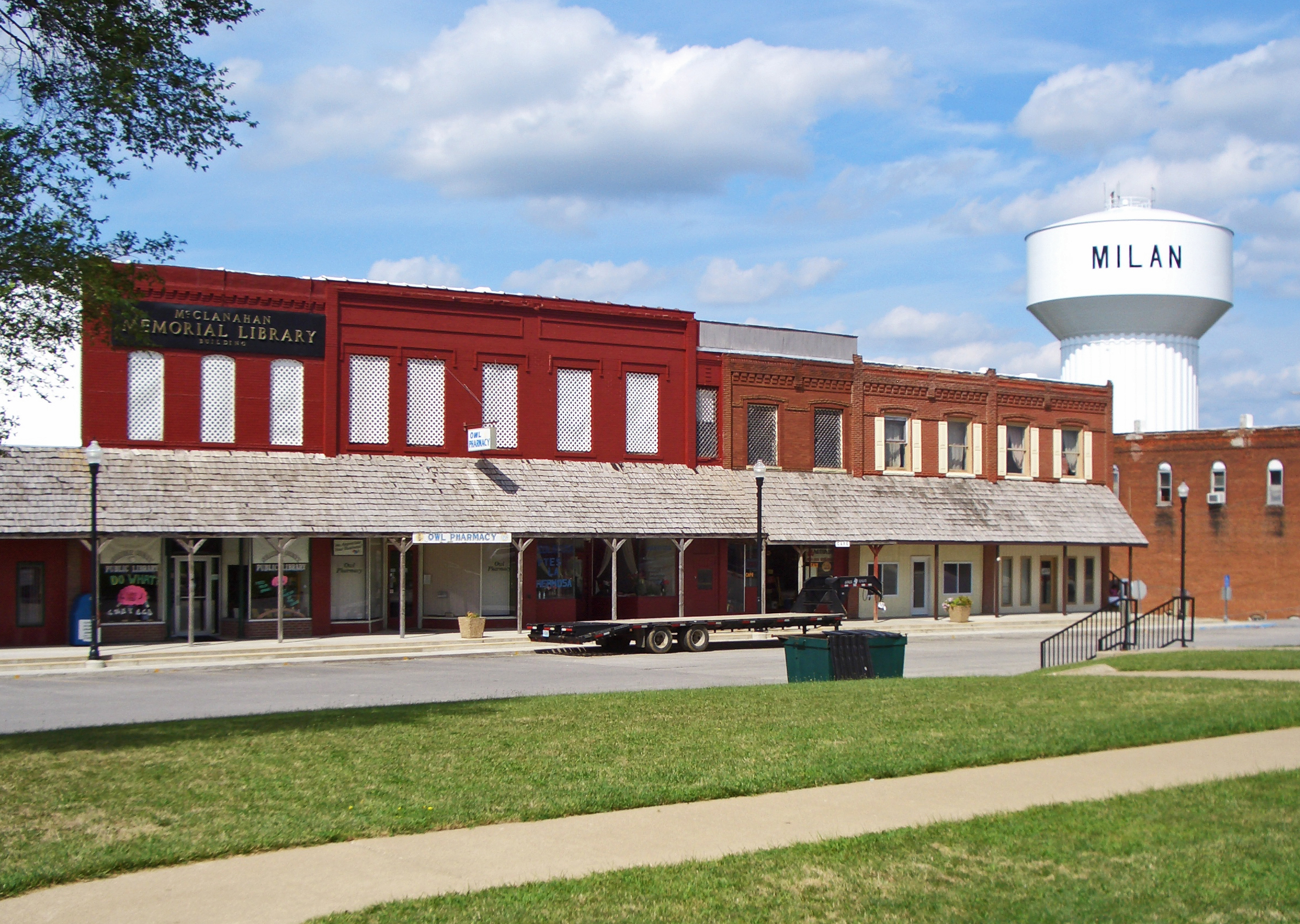 Milan, Missouri, view of a East 2nd Street on the town square with water tower